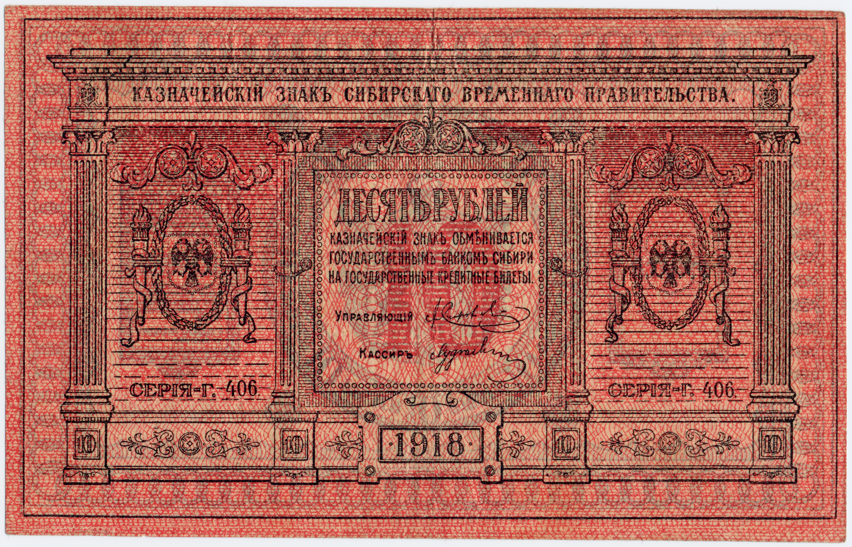 Banknote of Siberian Provisional Government, 1918, 10 rubles, obverse.